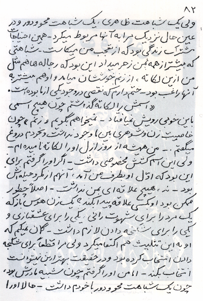 Page 82 of The Blind Owl ( Sadegh Hedayat's most famous work), which was published in Mumbai in 1937. It contains Hedayat's handwriting.